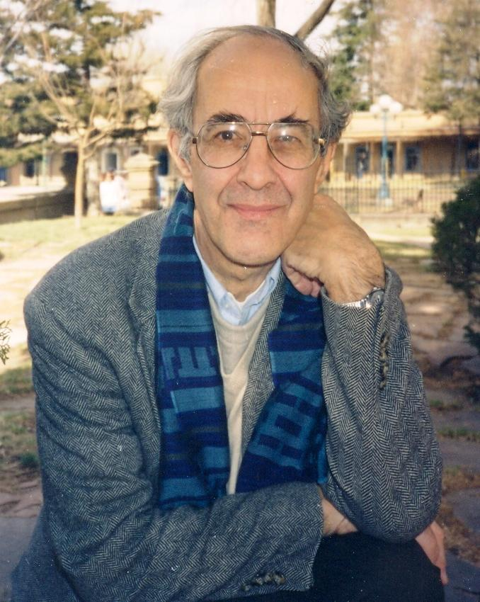 Photo of Henri Nouwen by Frank Hamilton